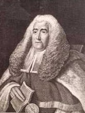 William Blackstone, British jurist, illustrated in his Commentaries on the Law of England (1809); from the Leeds University Library.